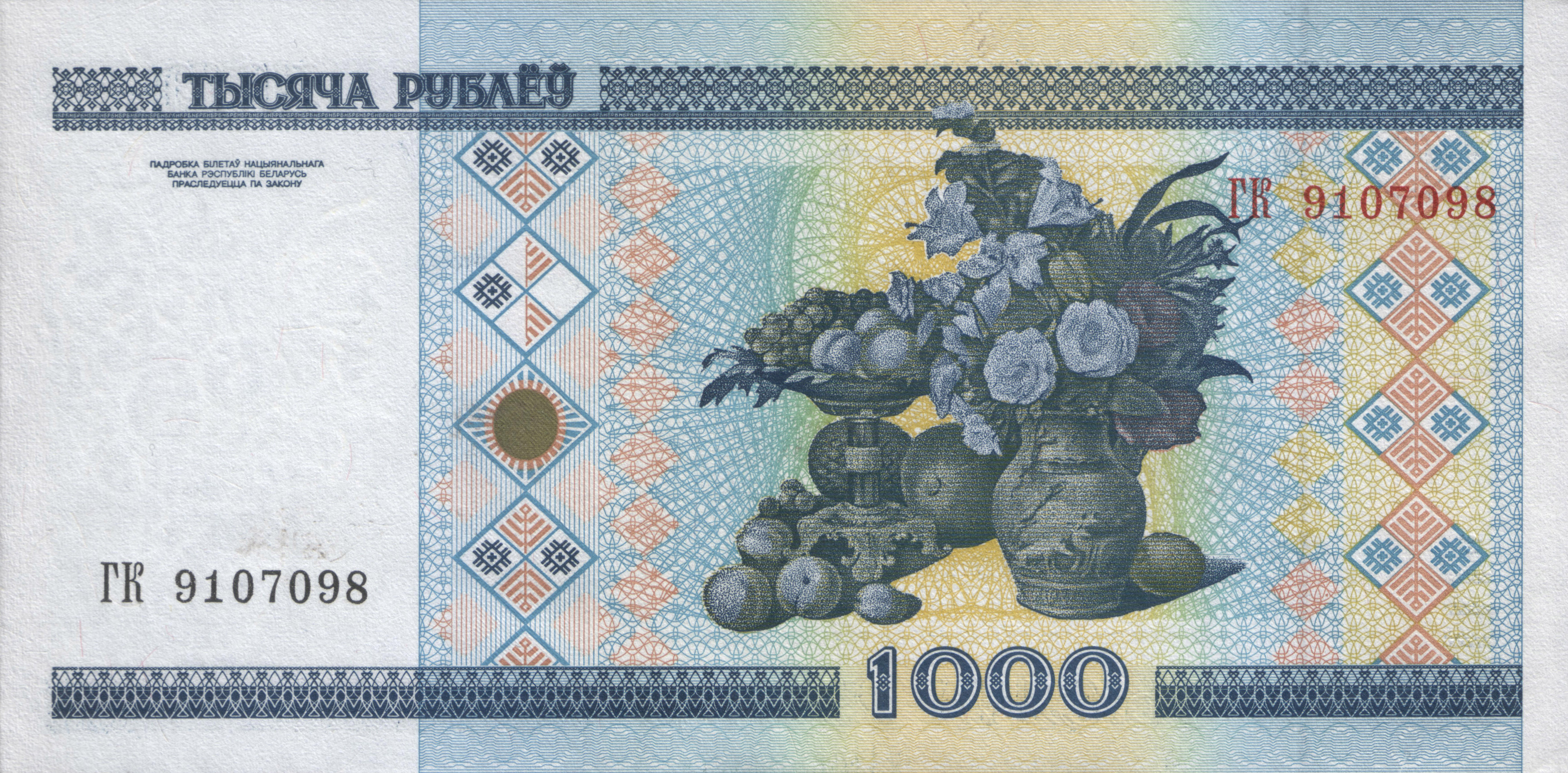 1000 roubles of Belarus (2000)